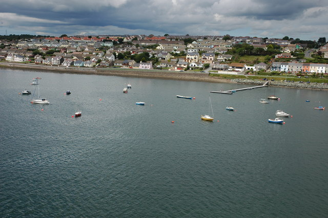 Neyland, Milford Haven Neyland is situated on the north shore of Milford Sound, opposite Pembroke Dock. Viewed here from the Pembroke to Rosslare ferry.